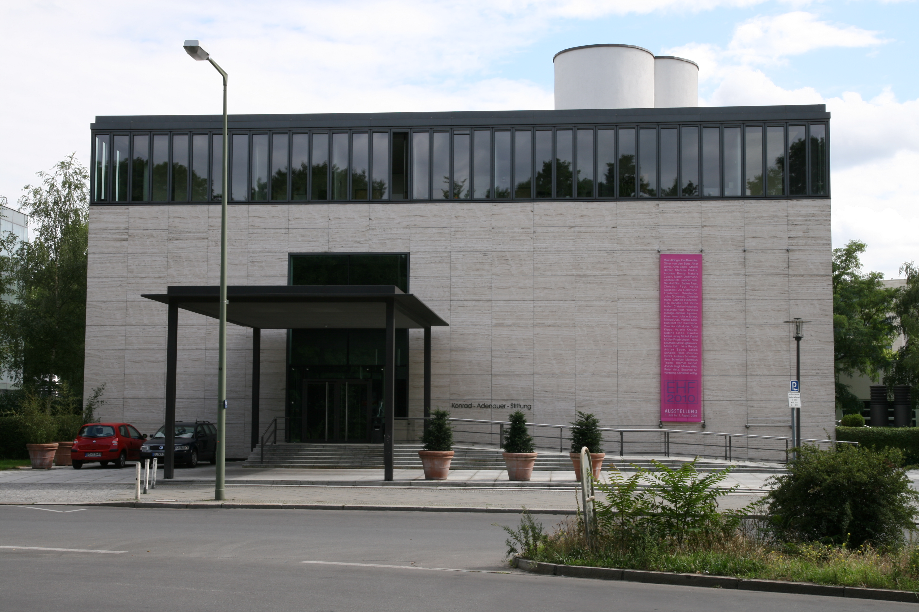 The Konrad Adenauer Foundation office on Tiergartenstraße in Berlin.